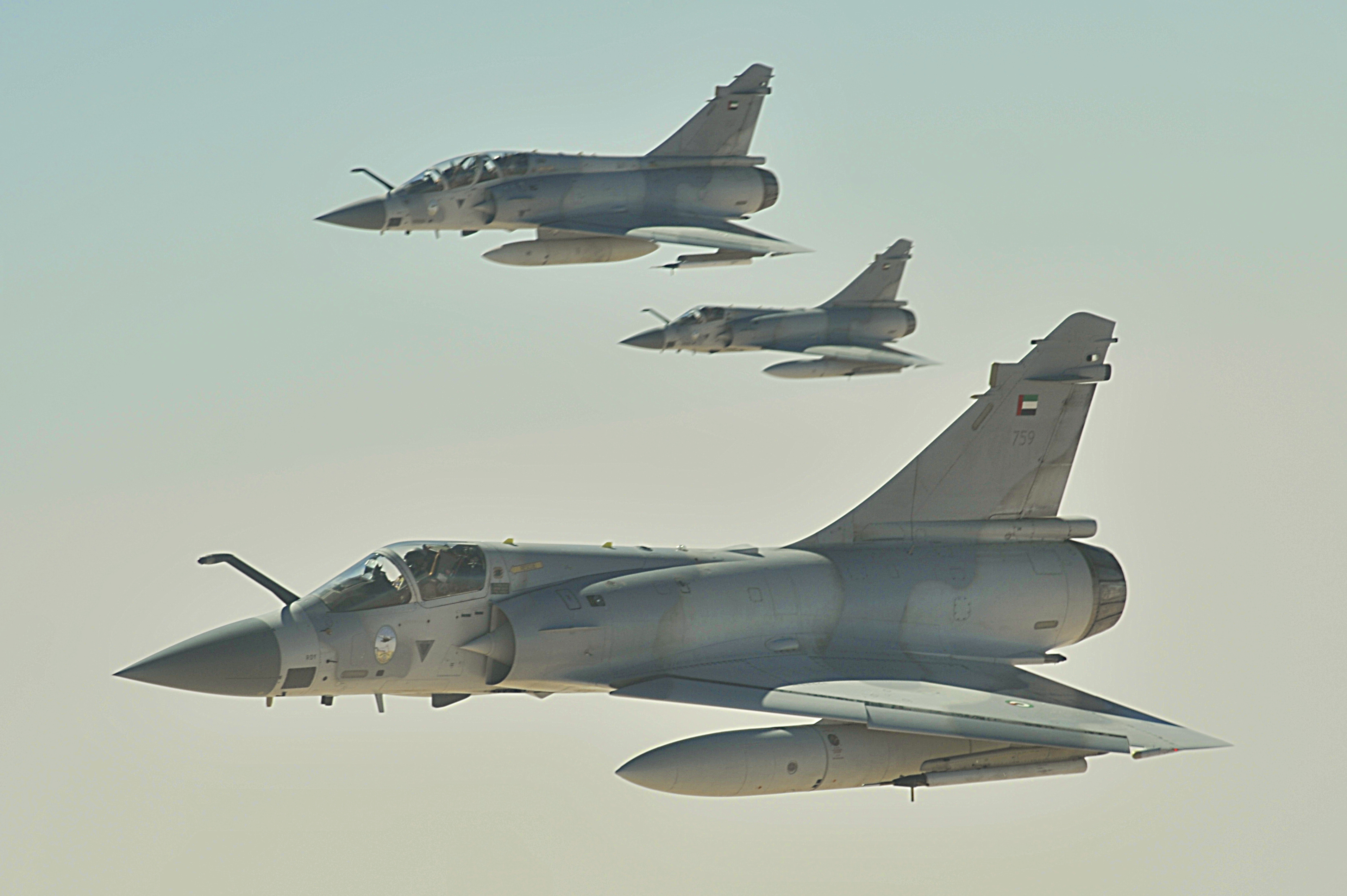 Several Emirate Mirage 2000 multirole combat fighter aircraft conduct a flight over Afghanistan Nov. 10, 2008, in support of exercise Iron Falcon.